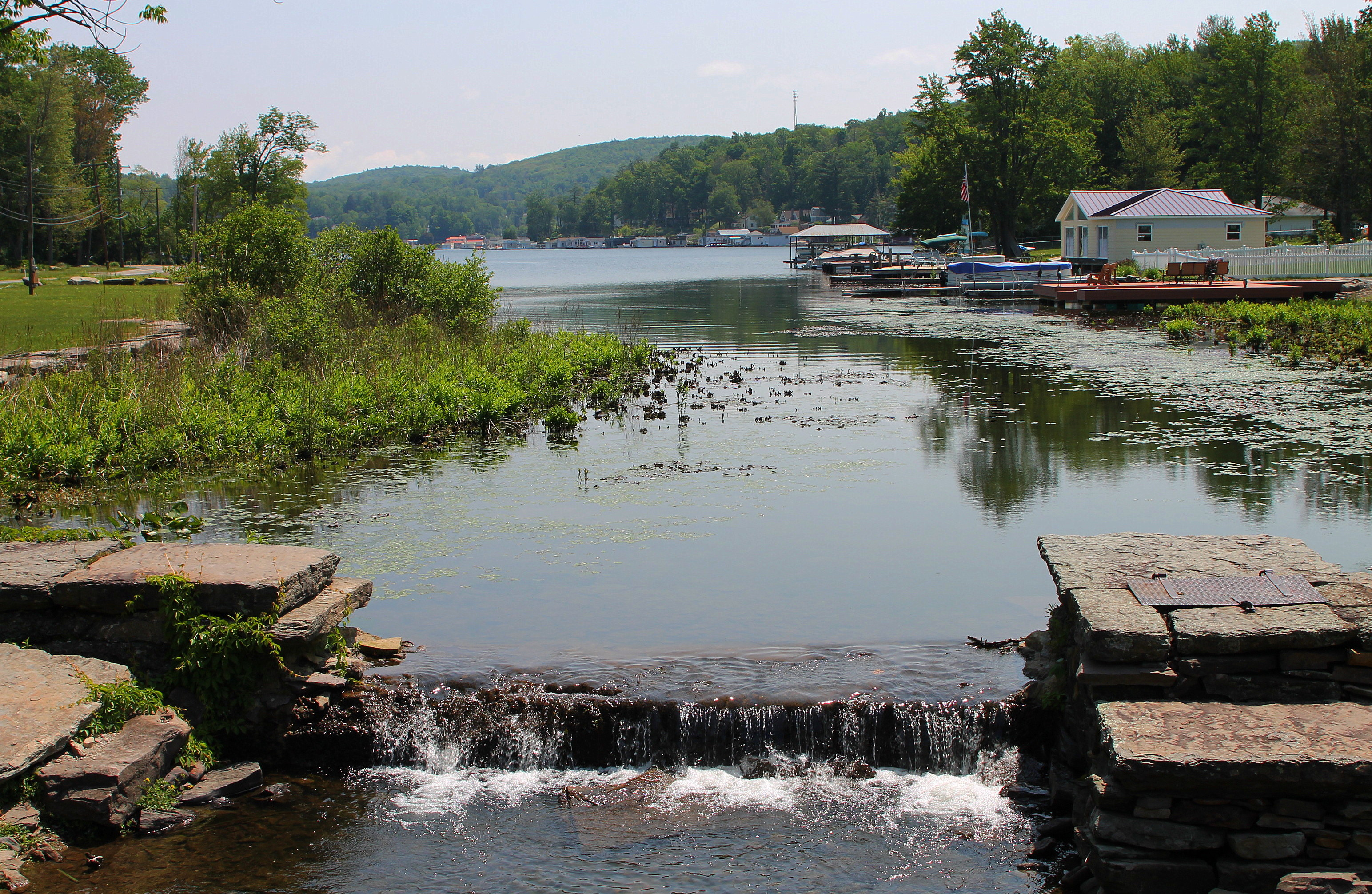 Harveys Lake Dam, a stone dam at the outflow of Harveys Lake and the headwaters of Harveys Lake